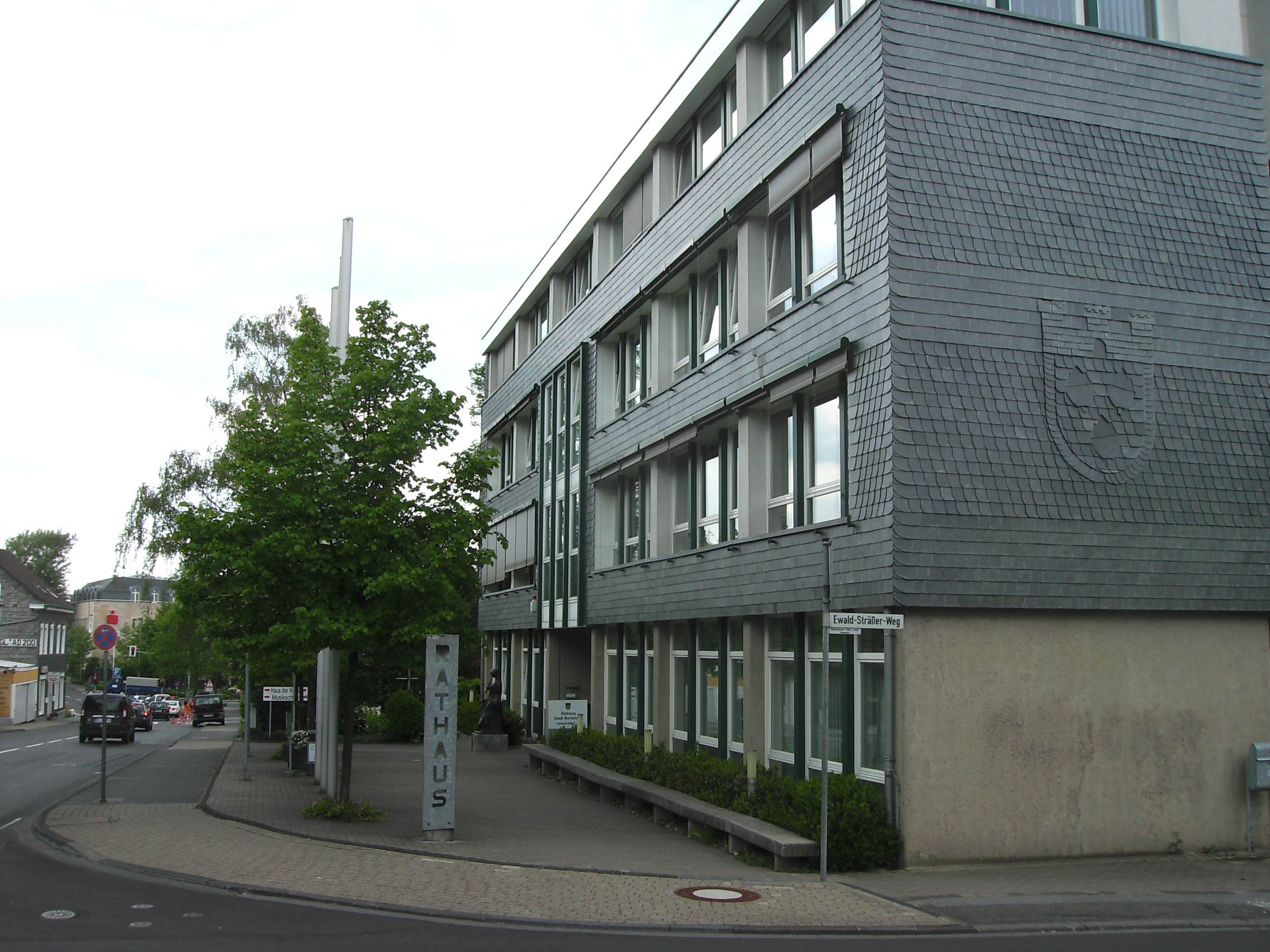 Town hall of Burscheid, Germany